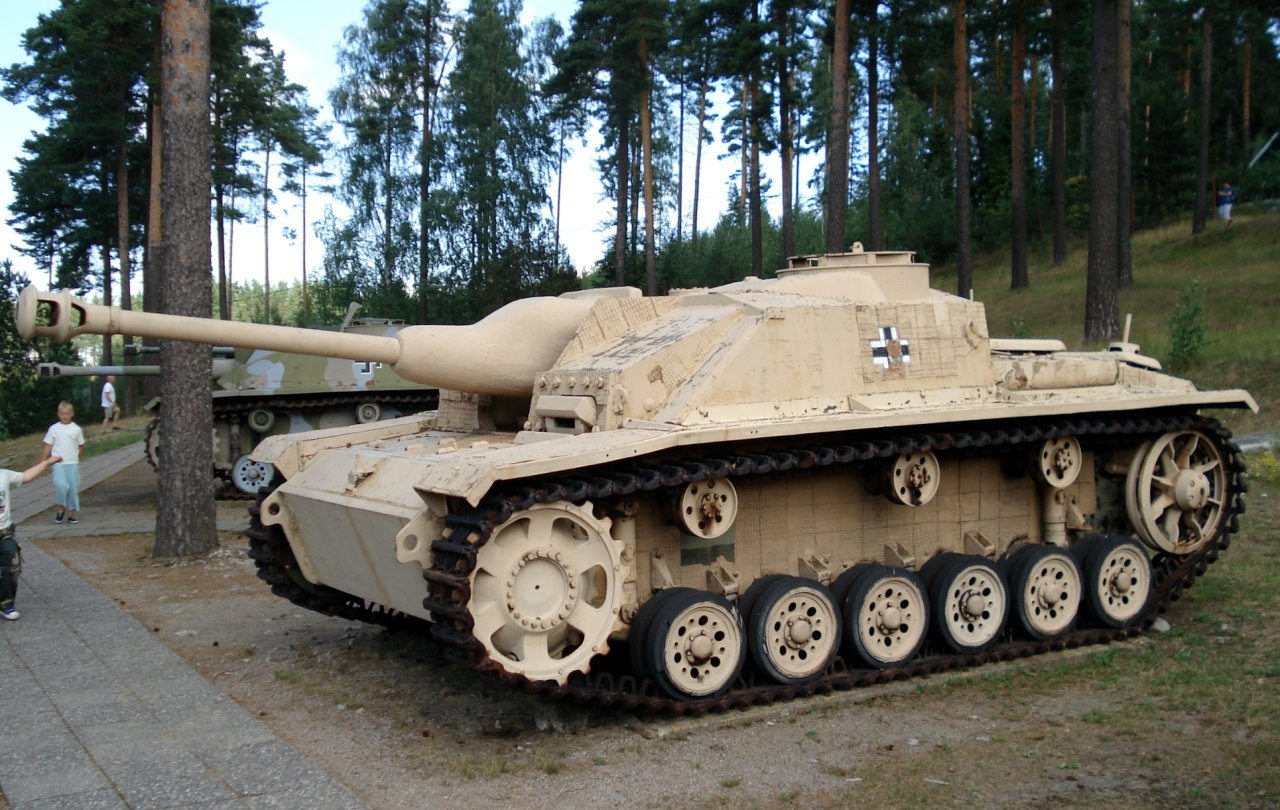 German Sturmgeschütz III, displayed in Finnish Tank Museum (Panssarimuseo) in Parola.